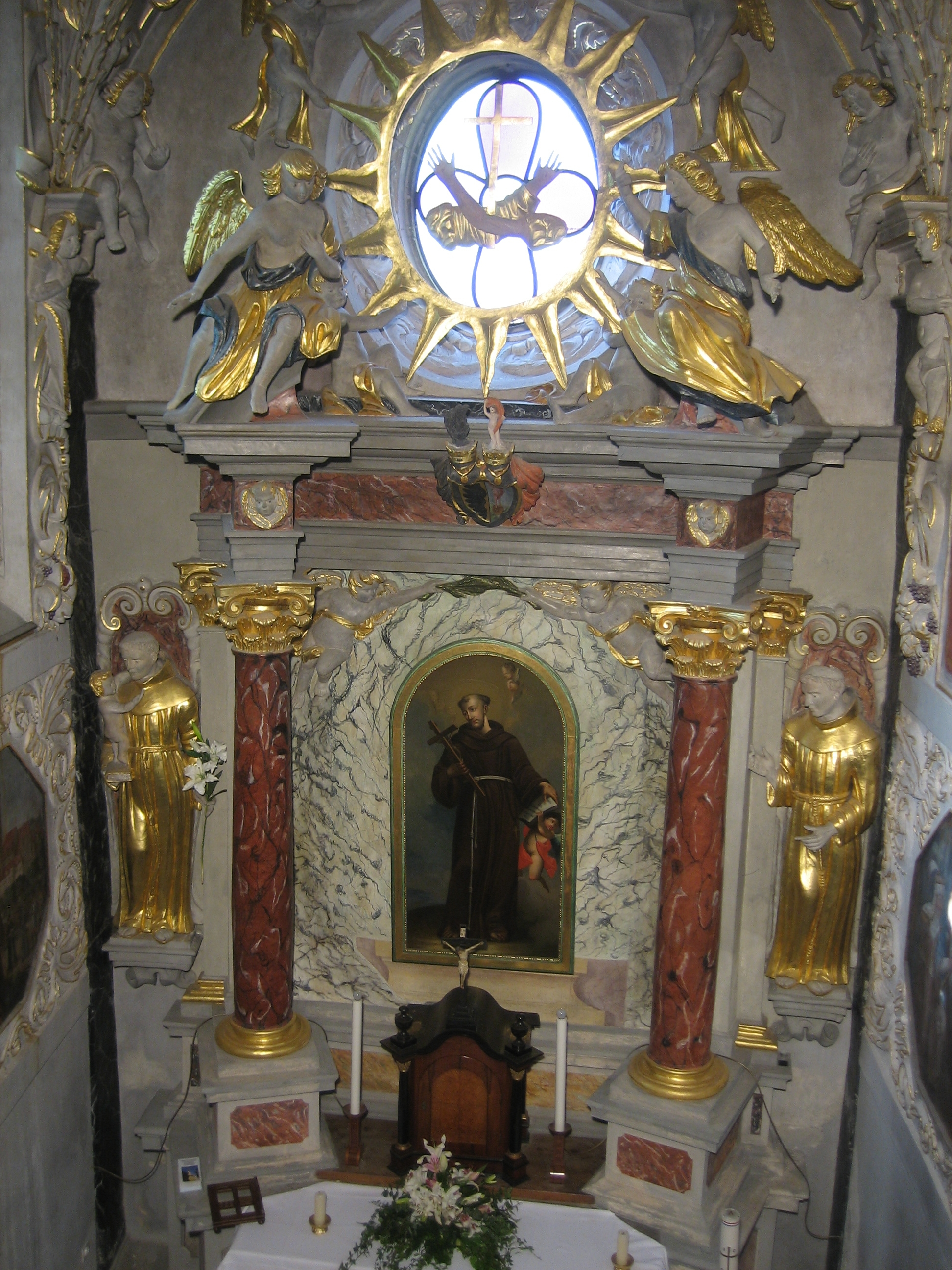 St. Francis Monastery of the franciscans in Zagreb, Croatia. Baroque chapel of St. Francis.